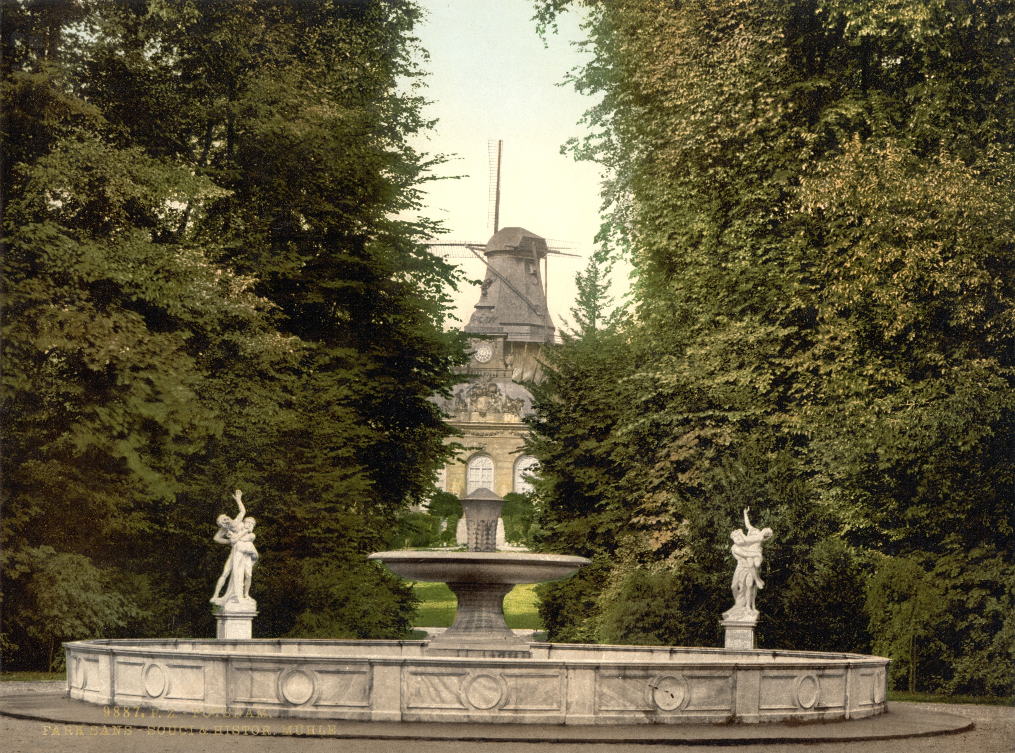 Sanssouci (Potsdam) - historical windmill